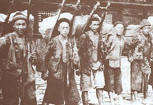 During early 1900, new Chinese immigrants arrival.